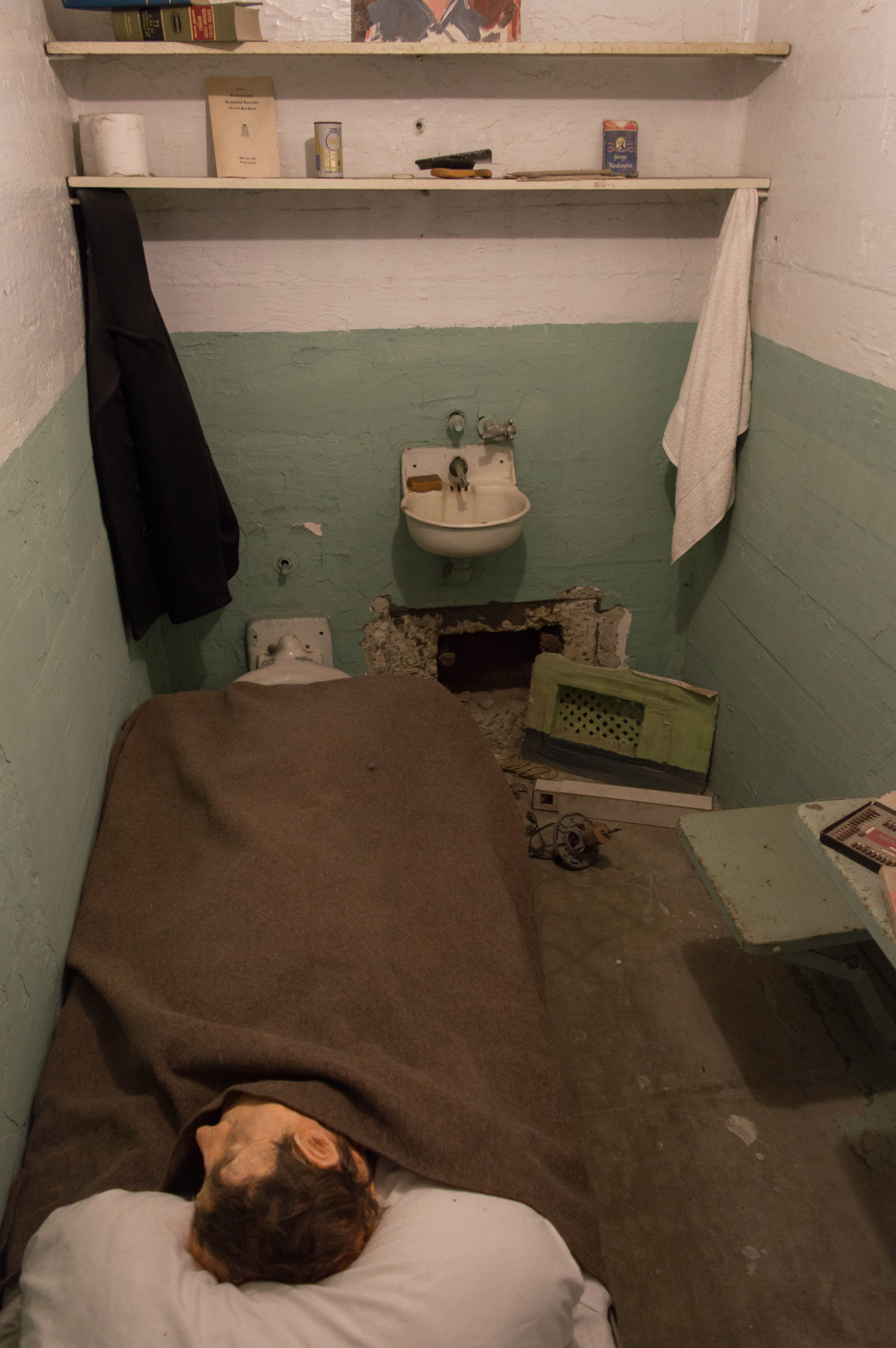 The cell from which inmates escaped at Alcatraz, San Francisco.